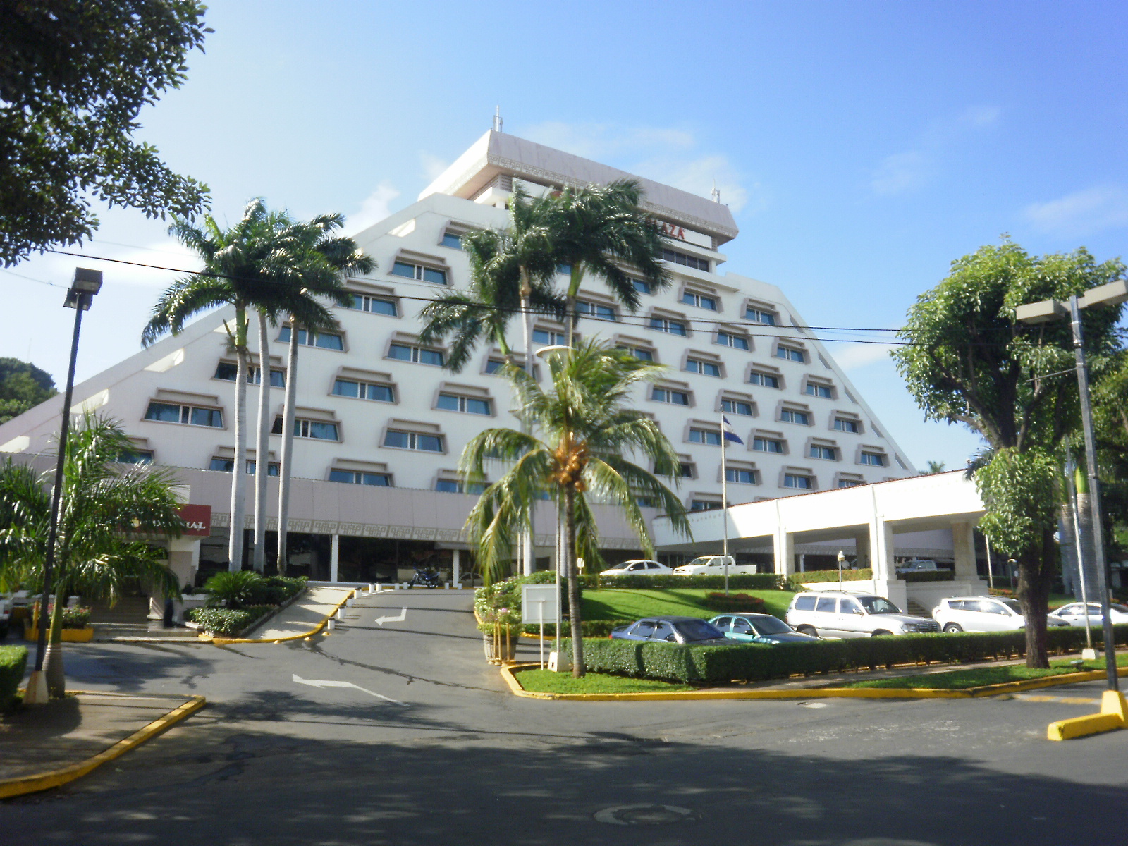 Hotel Crowne Plaza in Managua, Nicaragua.